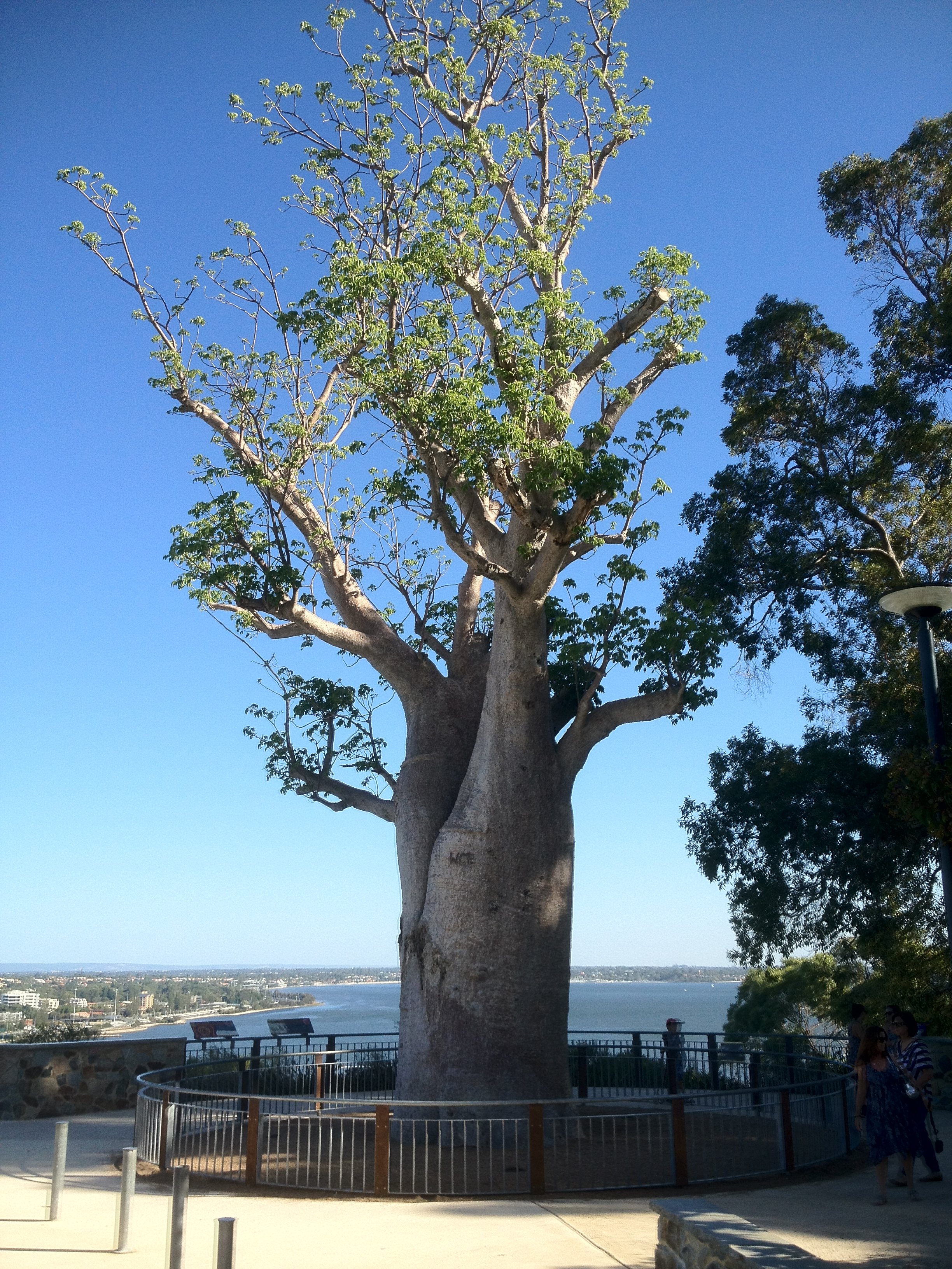 Boabab Kings Park, Western Australia February 2012